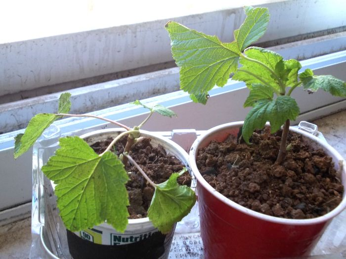 cuttings of redcurrant bush.